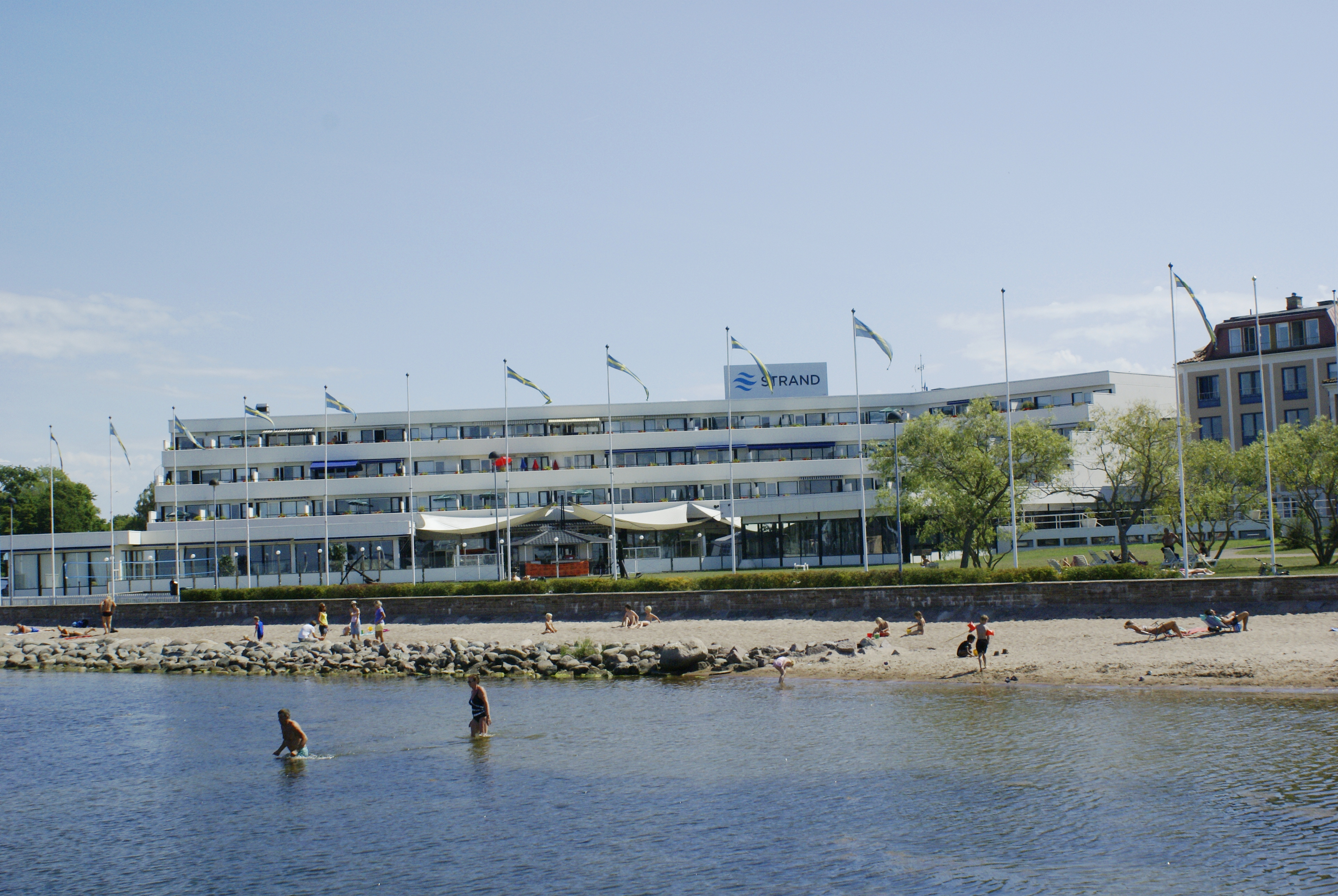 Strand Hotell Borgholm